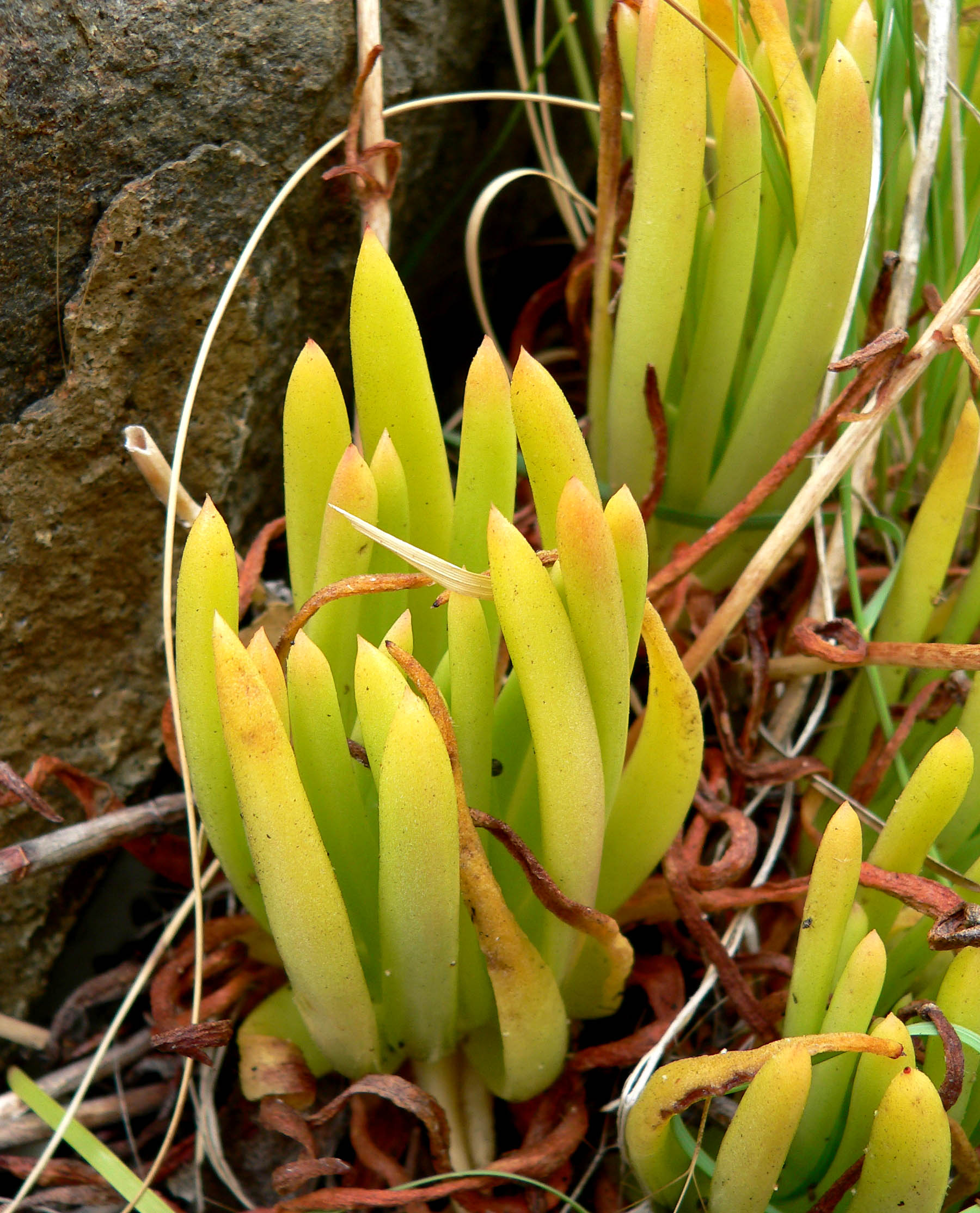 Dudleya viscida at the Regional Parks Botanic Garden